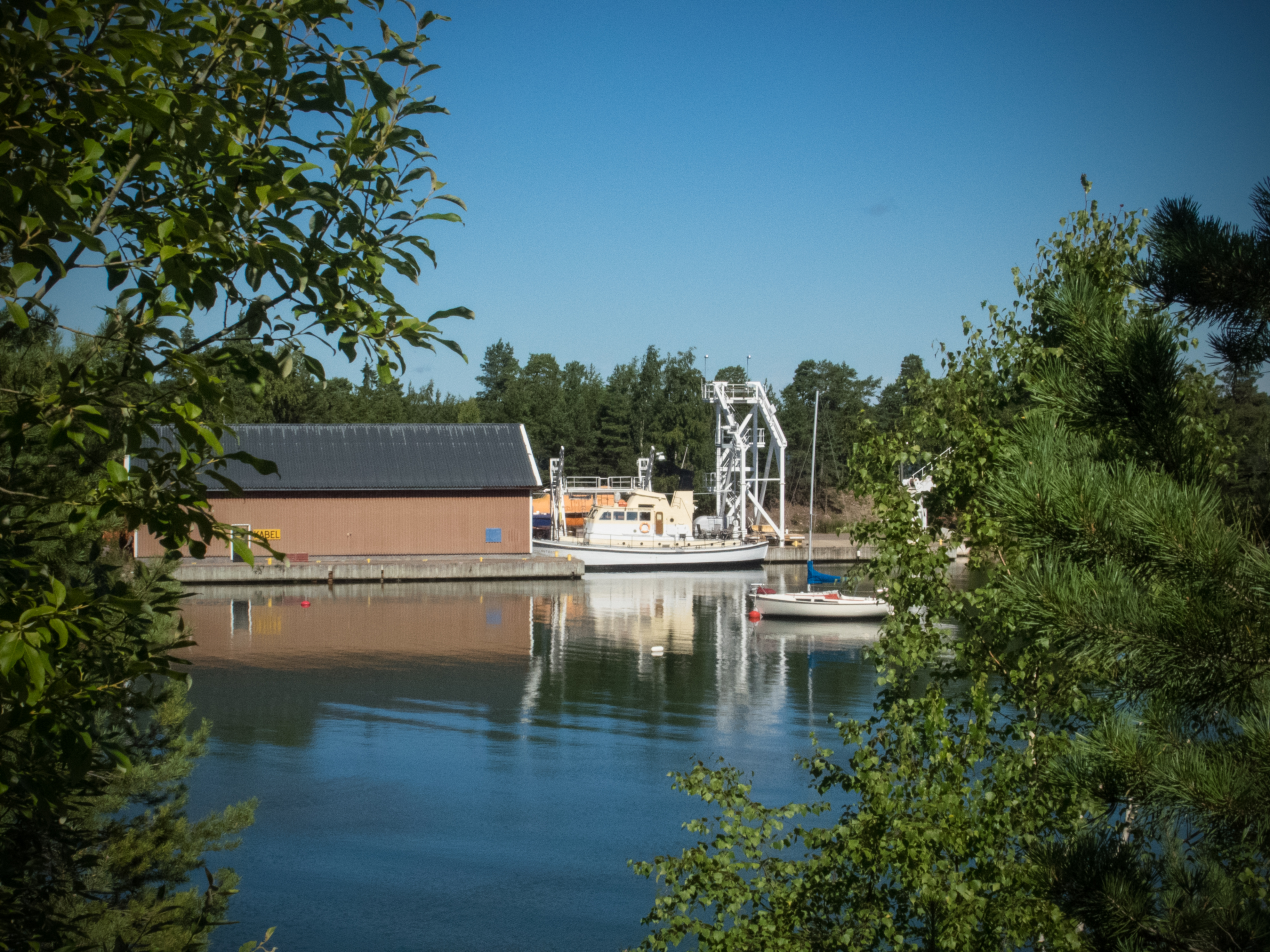 Airisto Center sea rescue training facility, Stormälö island, Pargas (Parainen)